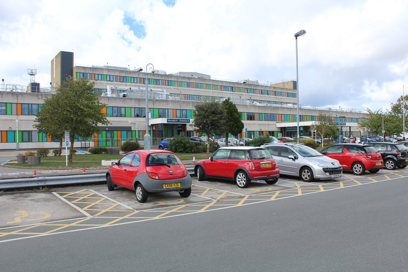 The new facade at Ysbyty Glan Clwyd 2018